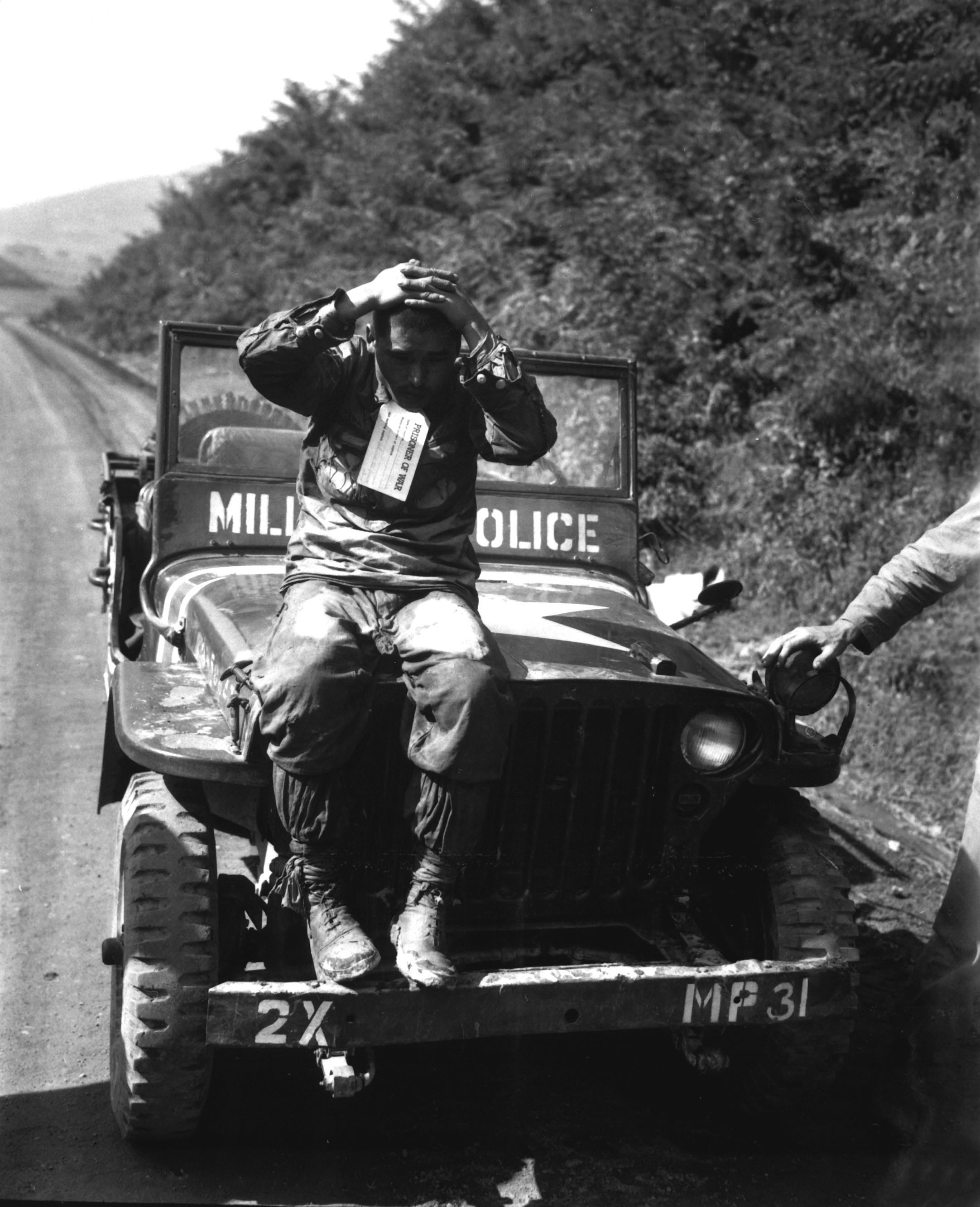 North Korean prisoner of Marines who rolled enemy back in Naktong River fighting. He wear a "Prisoner of War" tag and was treated in accordance with United Nations' rules of international warfare. September 4, 1950. S. Sgt. Walter W. Frank. (Marine Corps) NARA FILE #: 127-N-A2122 WAR & CONFLICT BOOK #: 1491